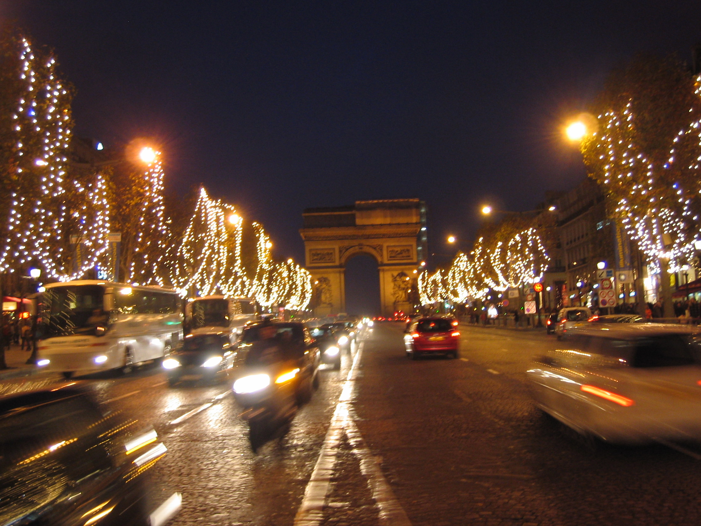 Champs-Élysées, Paris, in December.